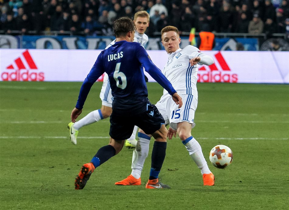 Brazil footballer Lucas Leiva playing for Lazio during a game v Dynamo Kyiv.